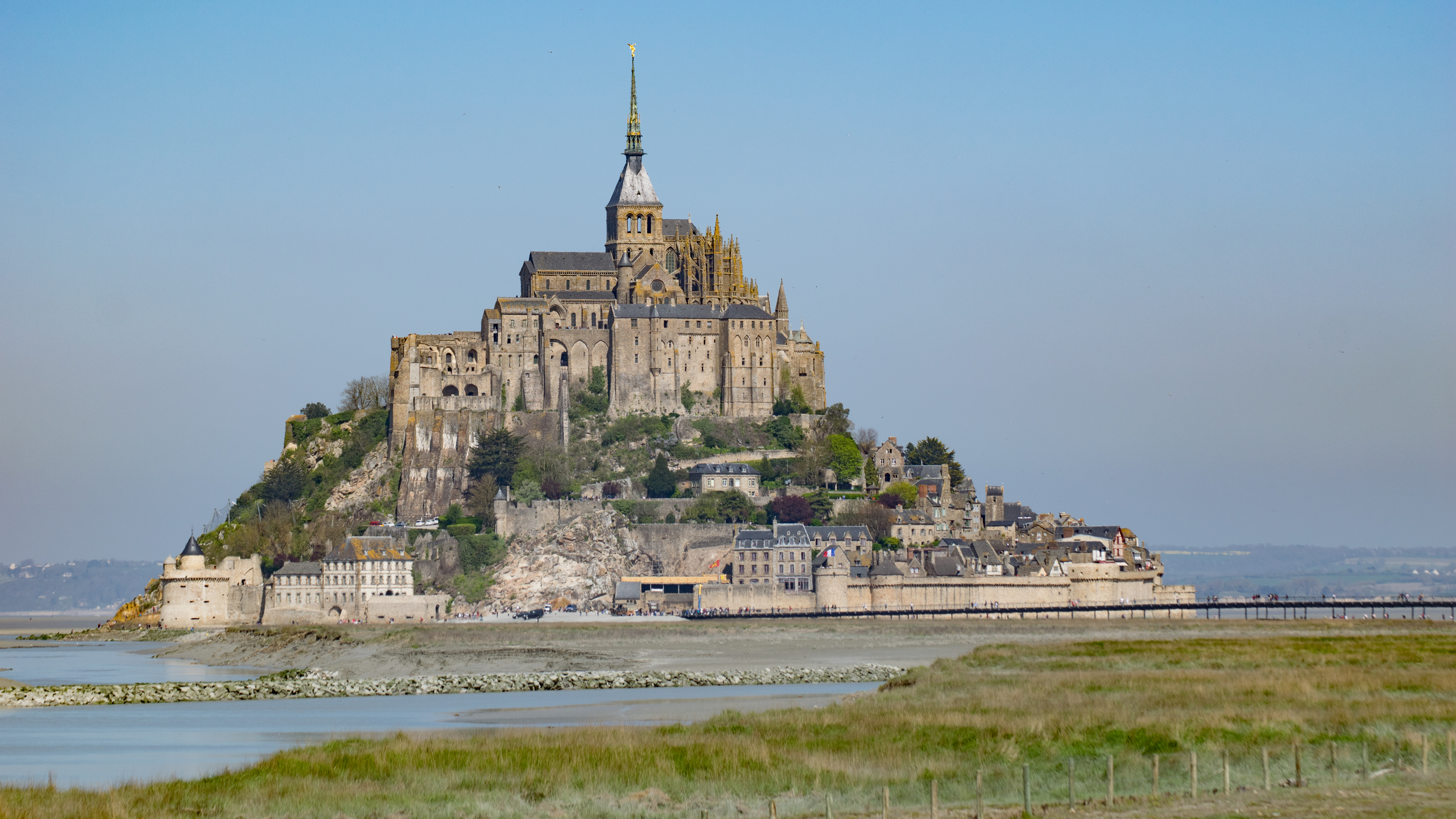 The Mont Saint-Michel seen from the savory meadows arround, Normandy, France.